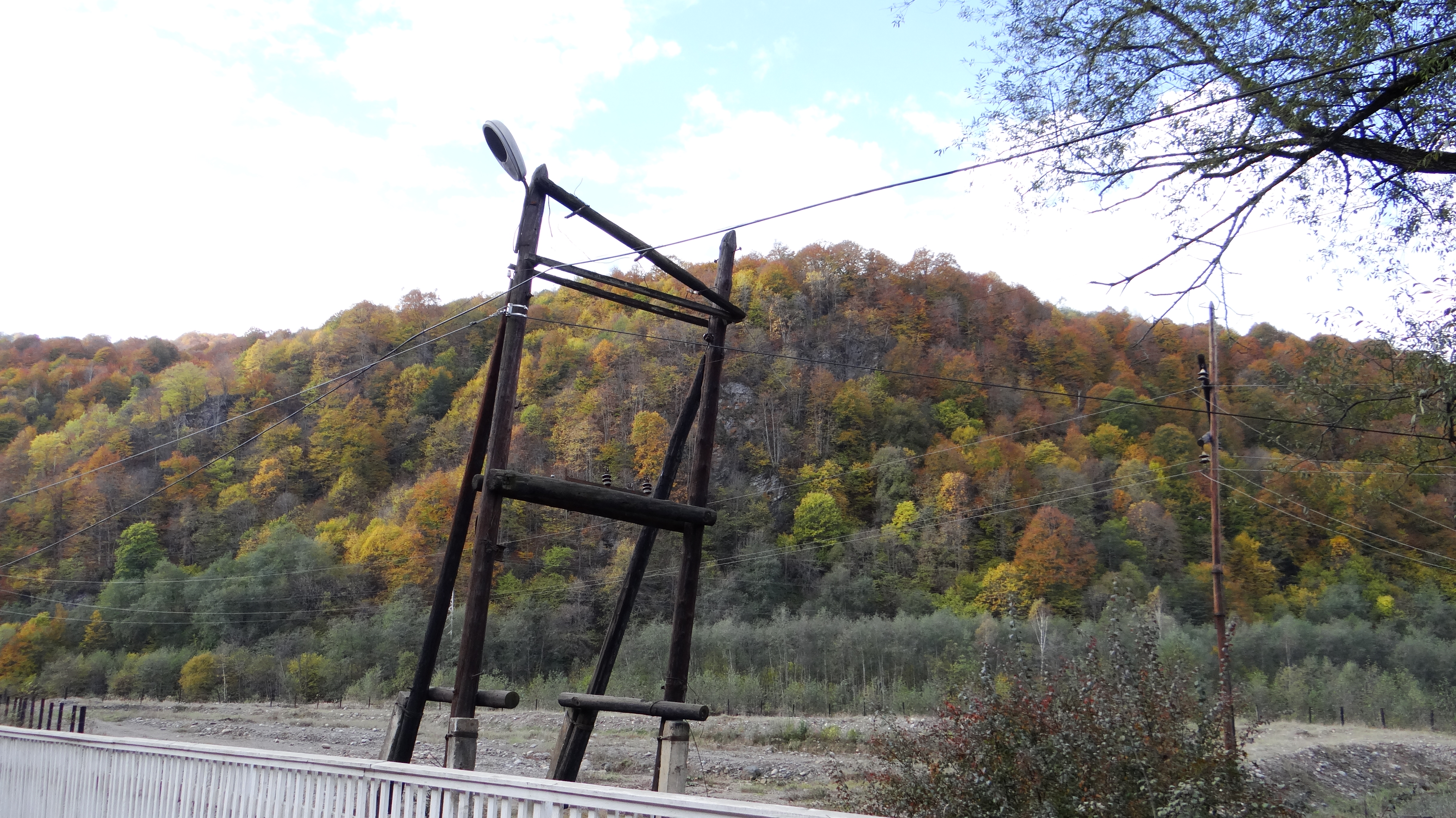 Urupsky District, Karachay-Cherkessia, Russia